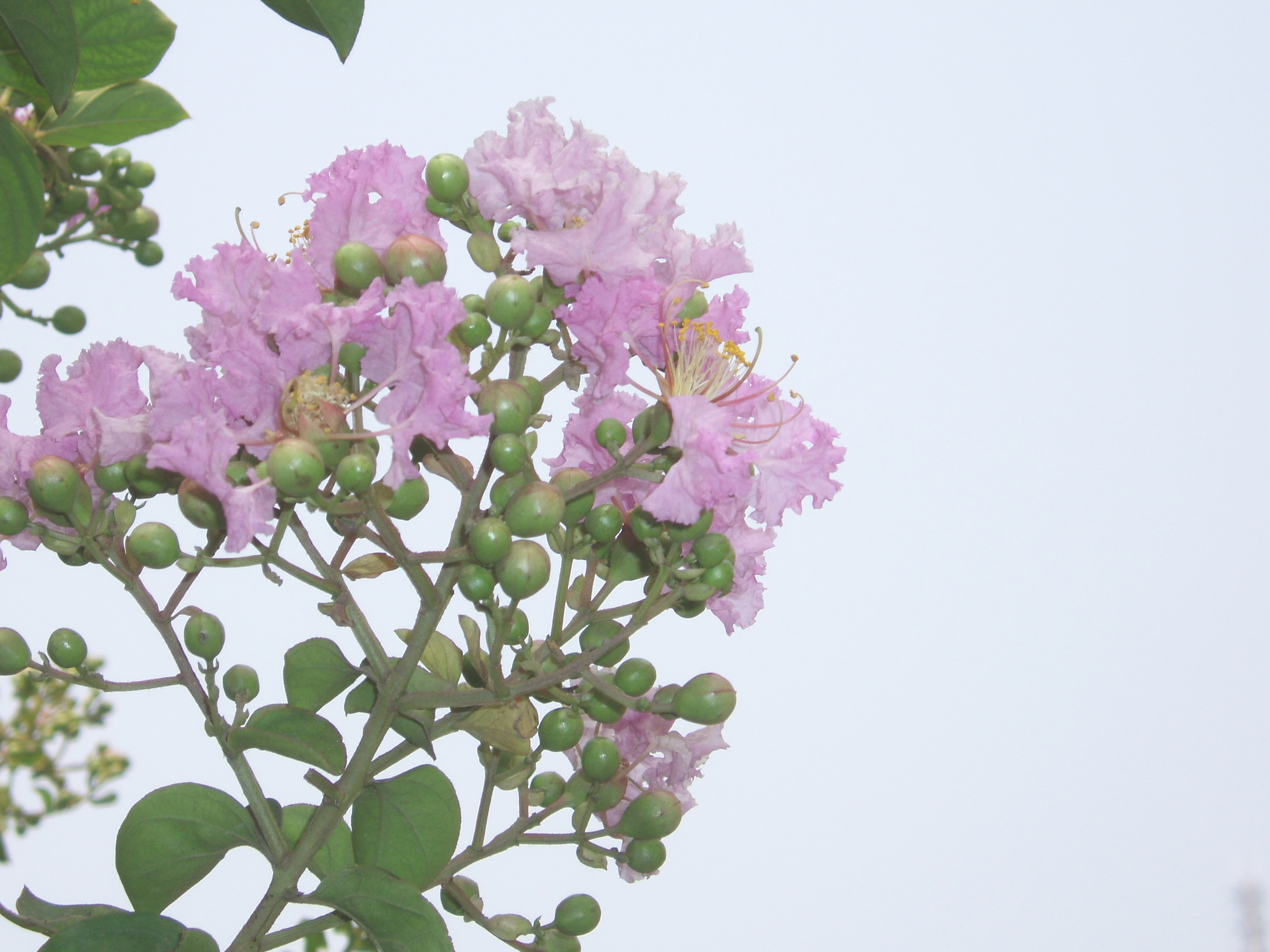 Crape myrtle flowers